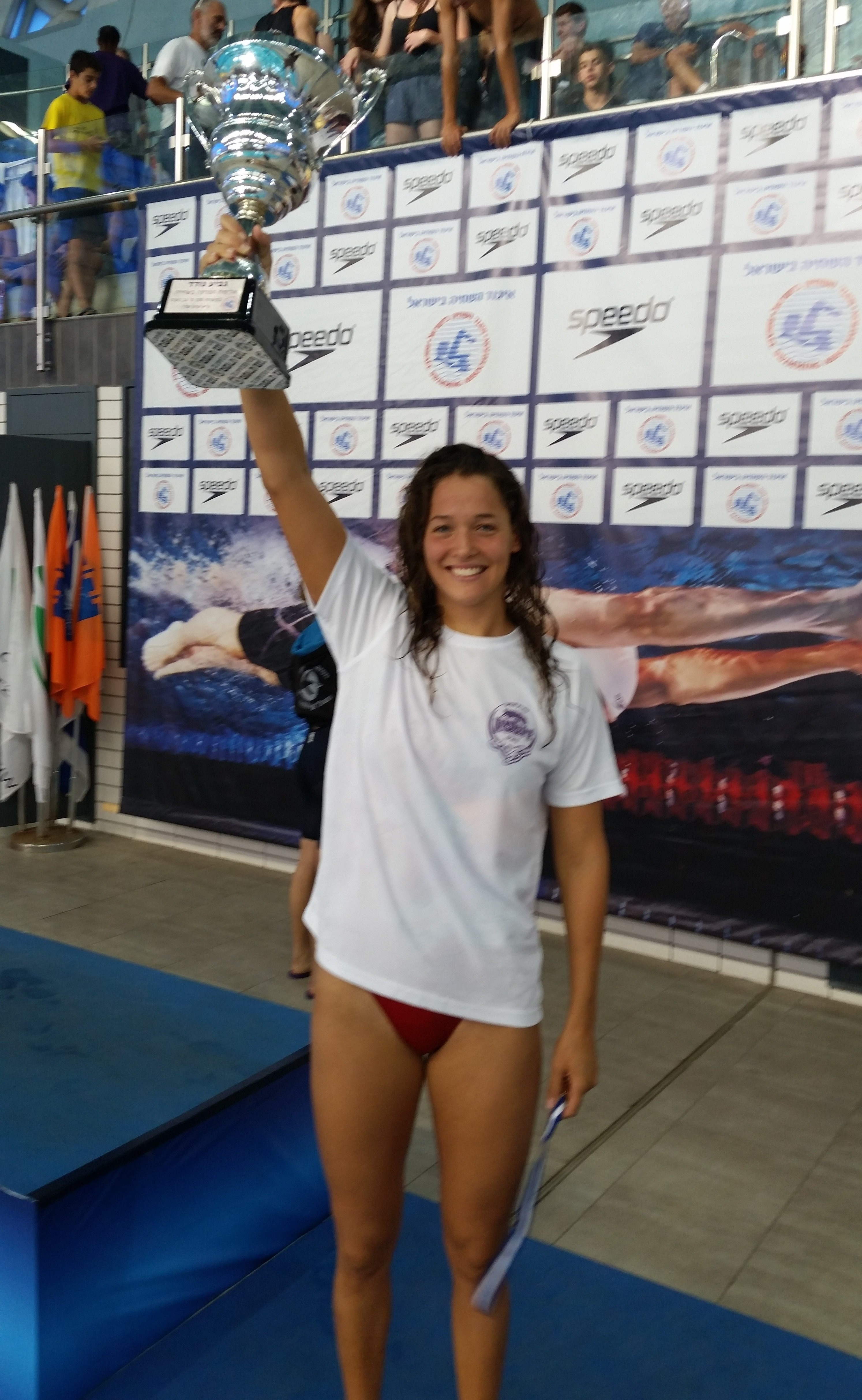 Keren Ziebner, Israel swimming championship, July 2016